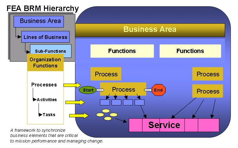 FEA business reference model: Processes are a group of related business activities performed to produce an end product or to provide a service. Unlike business functions that are performed on a continual basis, processes are characterized by the fact that they have a specific beginning and an end point marked by the delivery of a desired output. The figure below depicts the relationship between the business processes, business functions, and the business area’s business reference model.